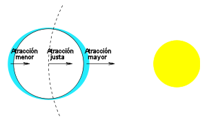 Tides explanation. Two bulges. 2007